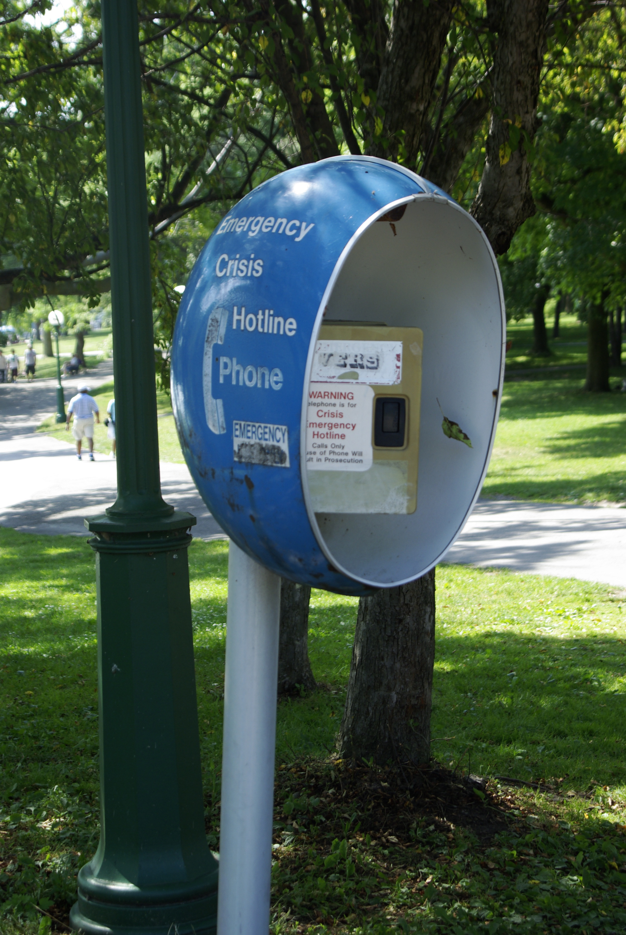 A photograph of a Emergency Crisis Hotline phone in Niagara Falls State Park